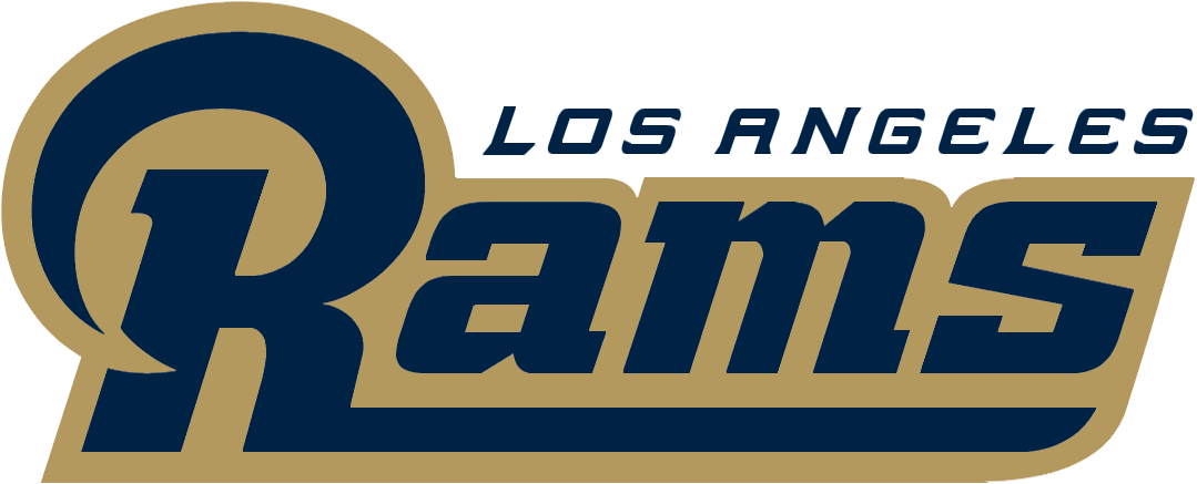 Wordmark logo for the Los Angeles Rams, introduced on January 15, 2016